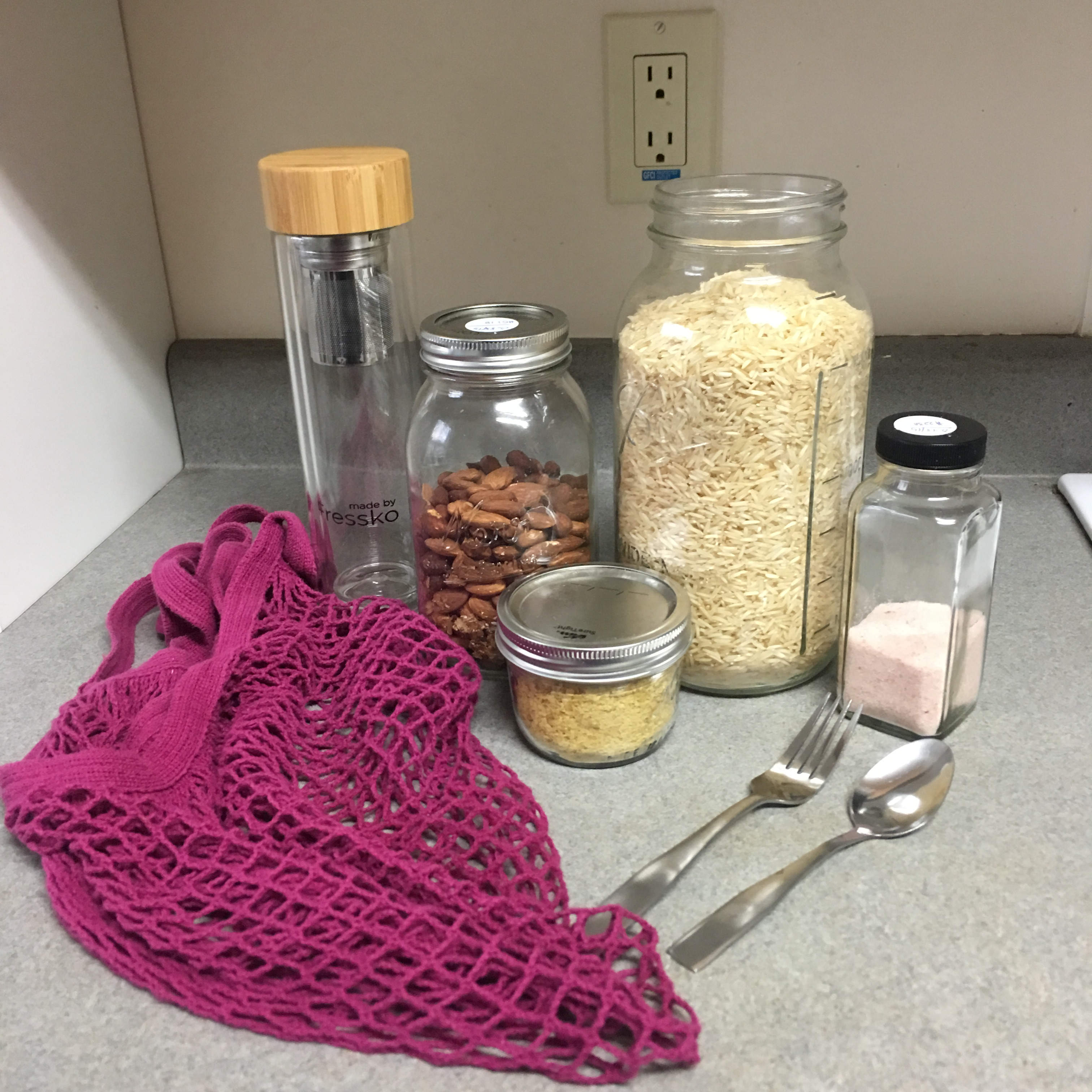 This photo is an example of how to move towards a zero waste lifestyle. Reuse mason jars, old spice bottles, reusable bag and water bottle.